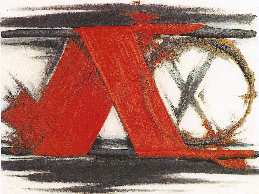 Jiménez-Balaguer Blood Violence and Iron 1992